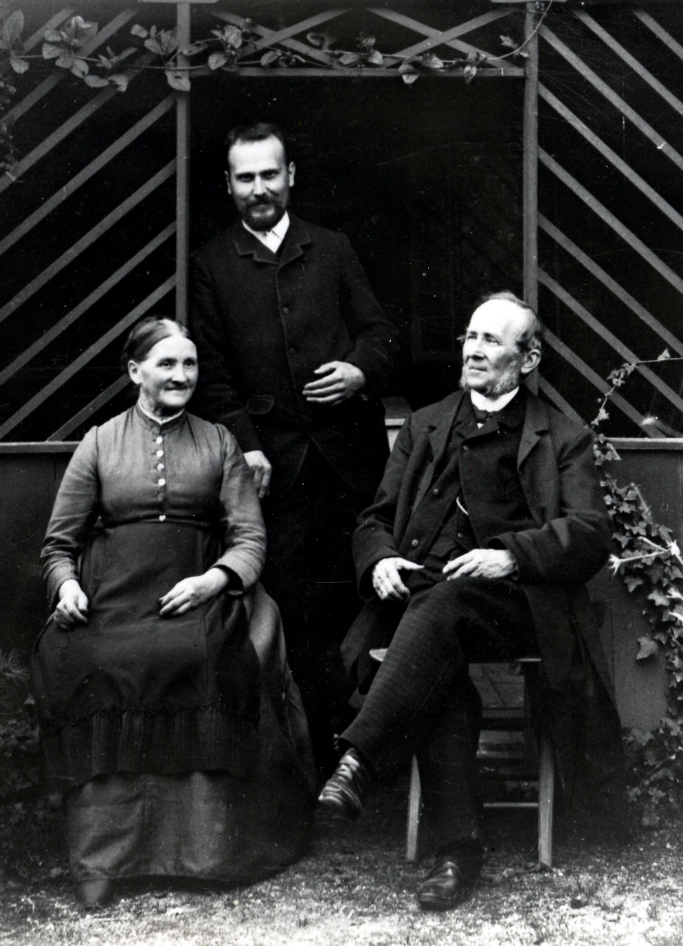 Rudolf, Leopold and Caroline Blaschka in garden, image cropped to better show subjects